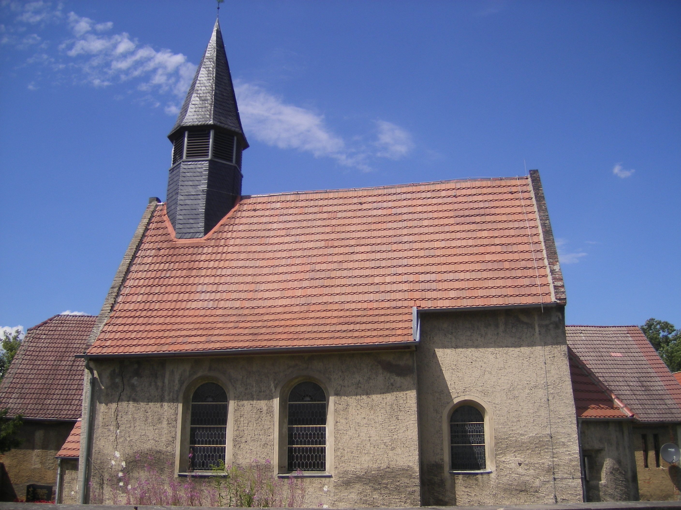 Church in Naundorf/Gößnitz in Thuringia